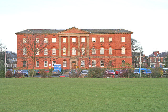 Bootham Park Psychiatric Hospital York. Not as forbidding as it looks, inside it is a very nice place.